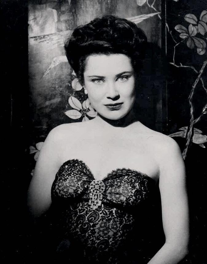 Jacqueline Dalya in a 1944 portrait for Voice in the Wind